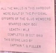 Britannia Yacht Club Harbour, Ottawa, Ontario plaque 1951-1969. In 1969, a brass plaque on the harbour commomorated All the walls in this harbour were built by the physical efforts of the club members started 1 November 1951 length 1 mile completed 19 October 1968. This stone laid by Captain Thomas G. Fuller.""